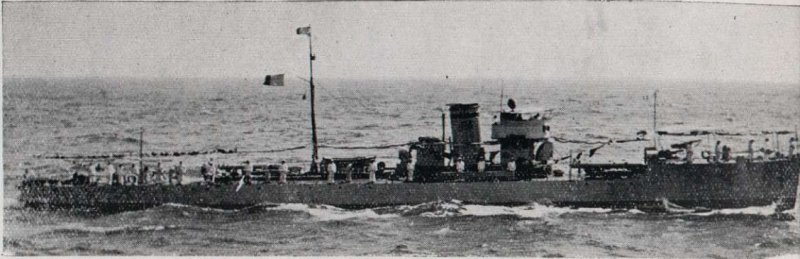 Royal Romanian escort torpedo boat Sborul / Zborul.